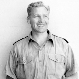 Studio portrait of O35392 Squadron Leader Andrew William ‘Nicky’ Barr, MC, DFC and Bar, RAAF fighter ace in World War II.